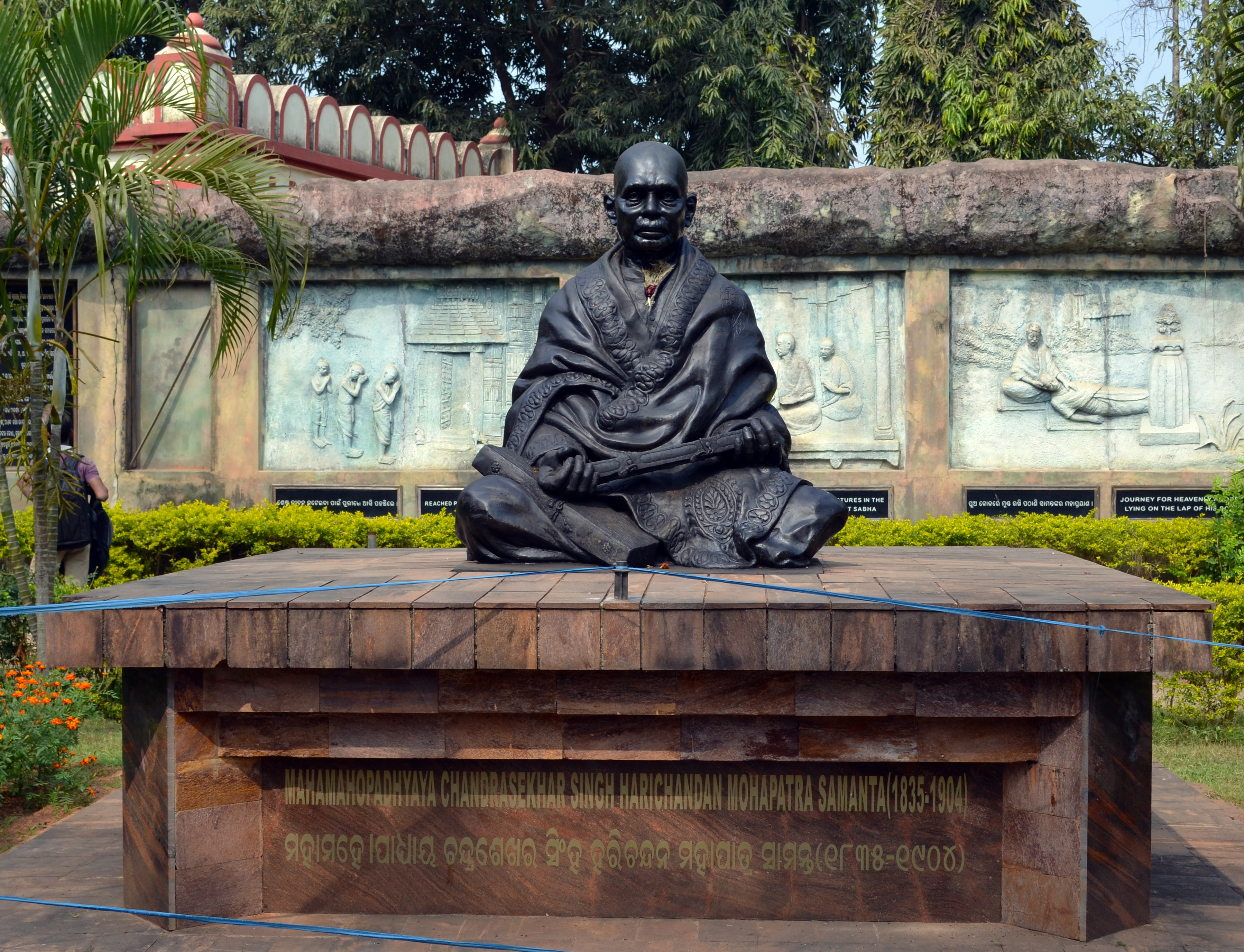 Statue of Pathani Samanta in Pathani Samanta Planetarium compound in Bhubaneswar, Odisha, India. ଓଡ଼ିଆ: ପଠାଣି ସାମନ୍ତ ପ୍ଲାନେଟୋରିଅମ, ଭୁବନେଶ୍ୱରରେ ଥିବା ପଠାଣି ସାମନ୍ତଙ୍କ ପ୍ରତିମୂର୍ତ୍ତି ।